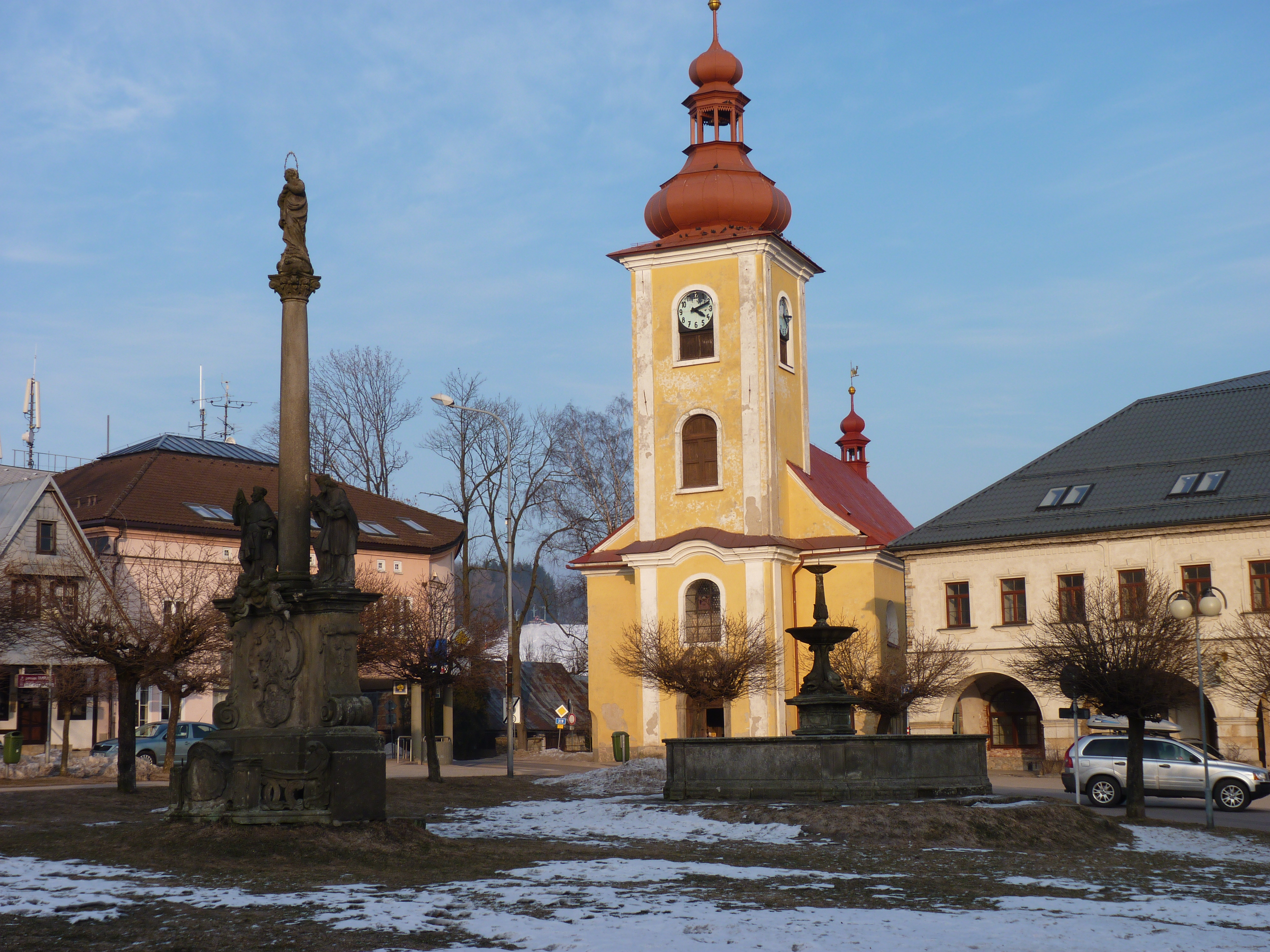 Rokytnice v Orlických horách